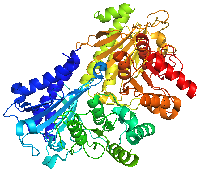 SBPase crystallographic structure. Based on PyMOL rendering of PDB [1]